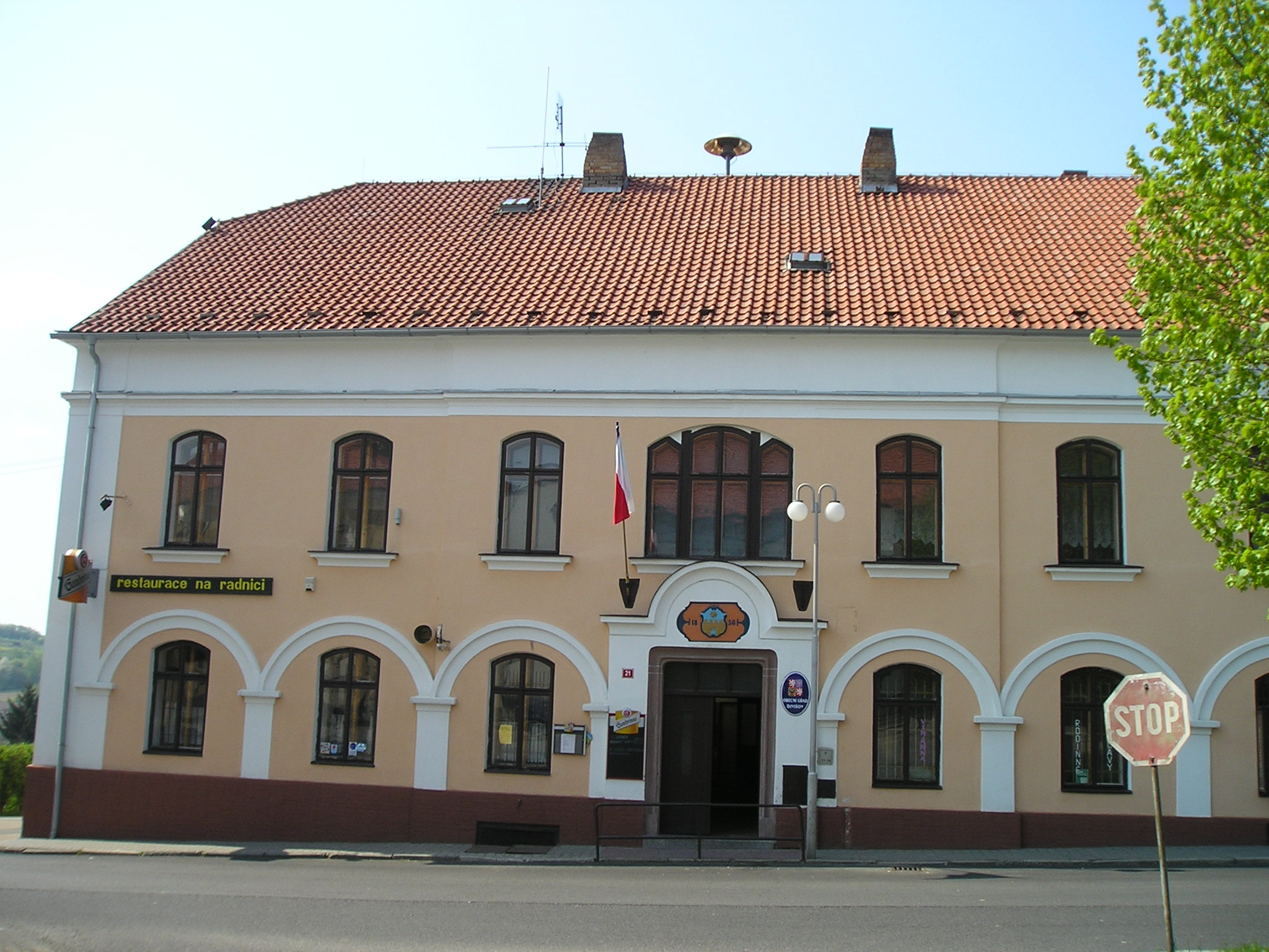 Divišovský obecní úřad (Divišov municipal office building; village in the Czech Republic)